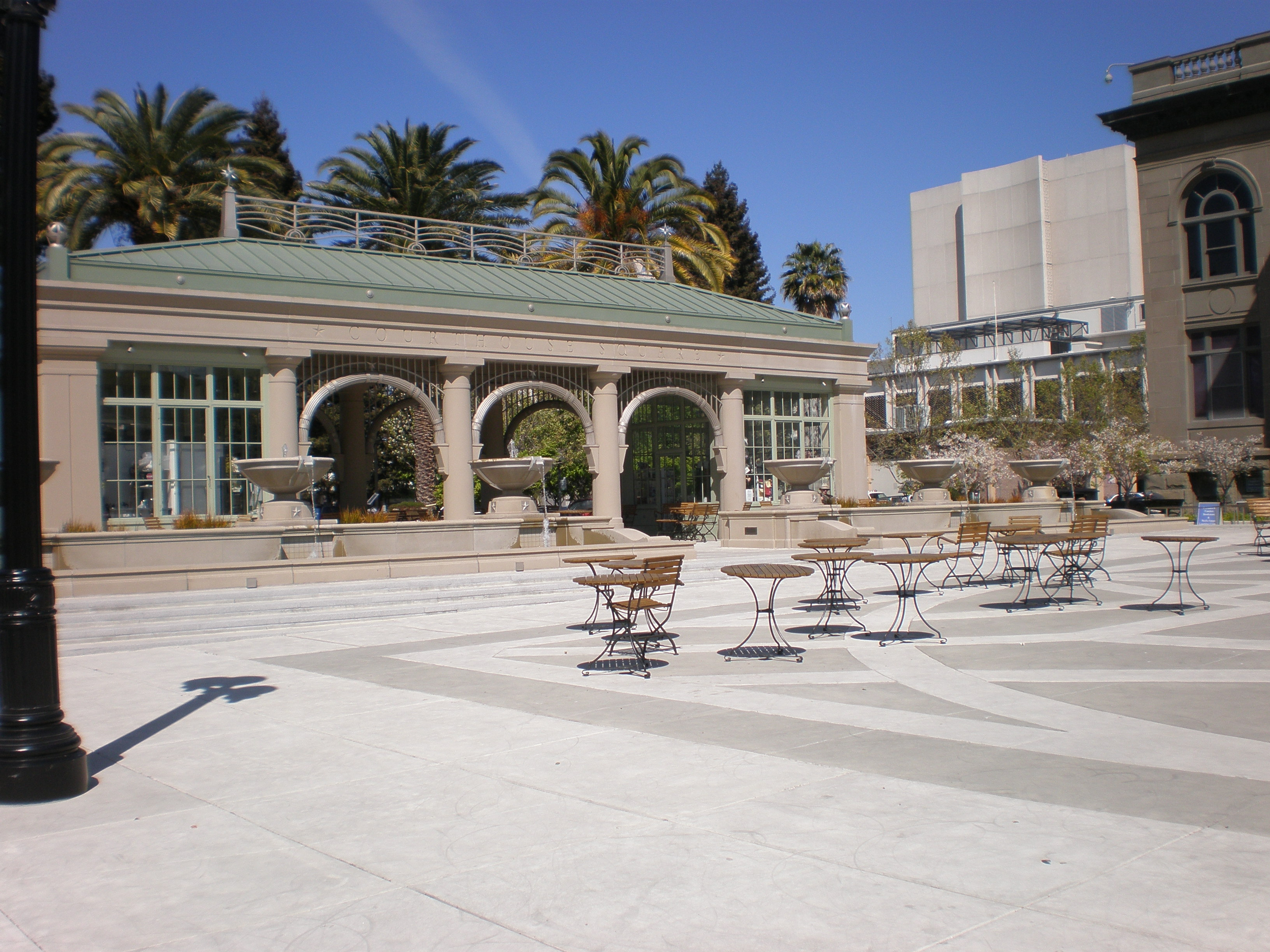 The east side of Courthouse Square in Redwood City, California.